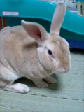 Mini Rex (color:Lynx)